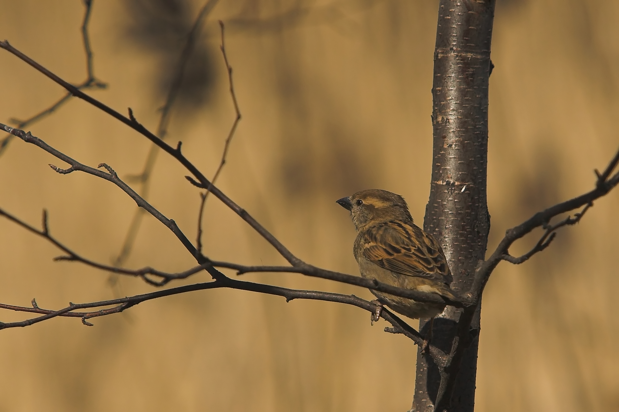 Female Passer domesticus sitting in a tree. Photo by Thermos. Other versions: Image:PasserDomesticusTree e1.jpg